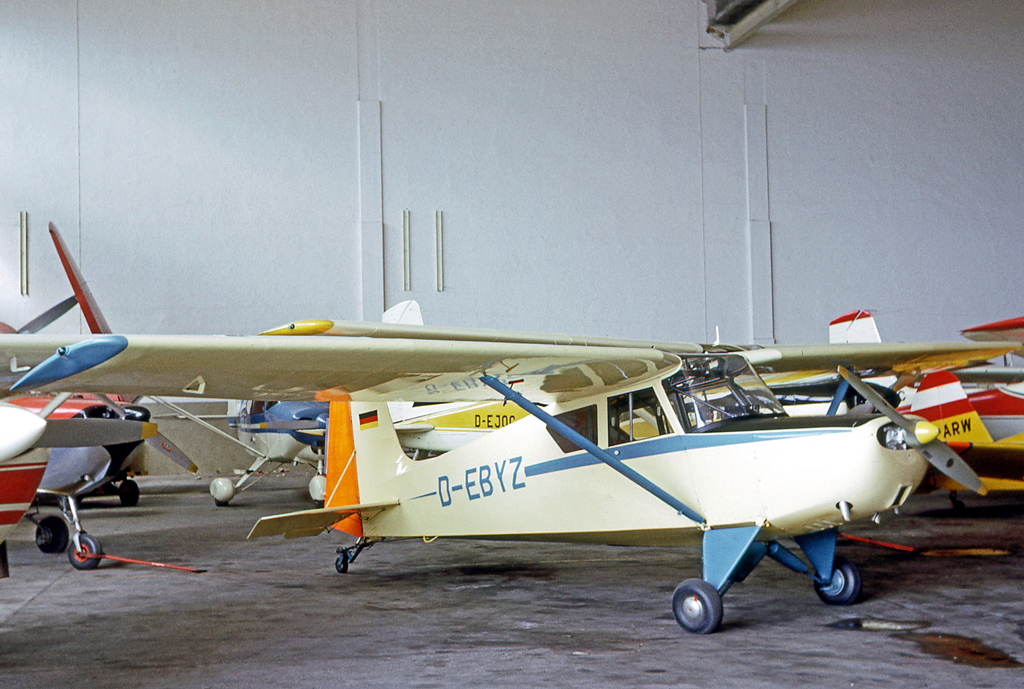 Scheibe SF-23A Sperling D-EBYZ at Munich Riem airport in 1965